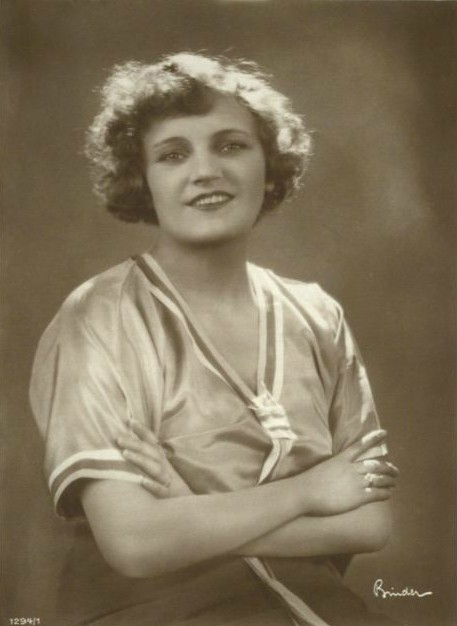 Portrait of German actress Maly Delschaft (1898–1995) by Alexander Binder.